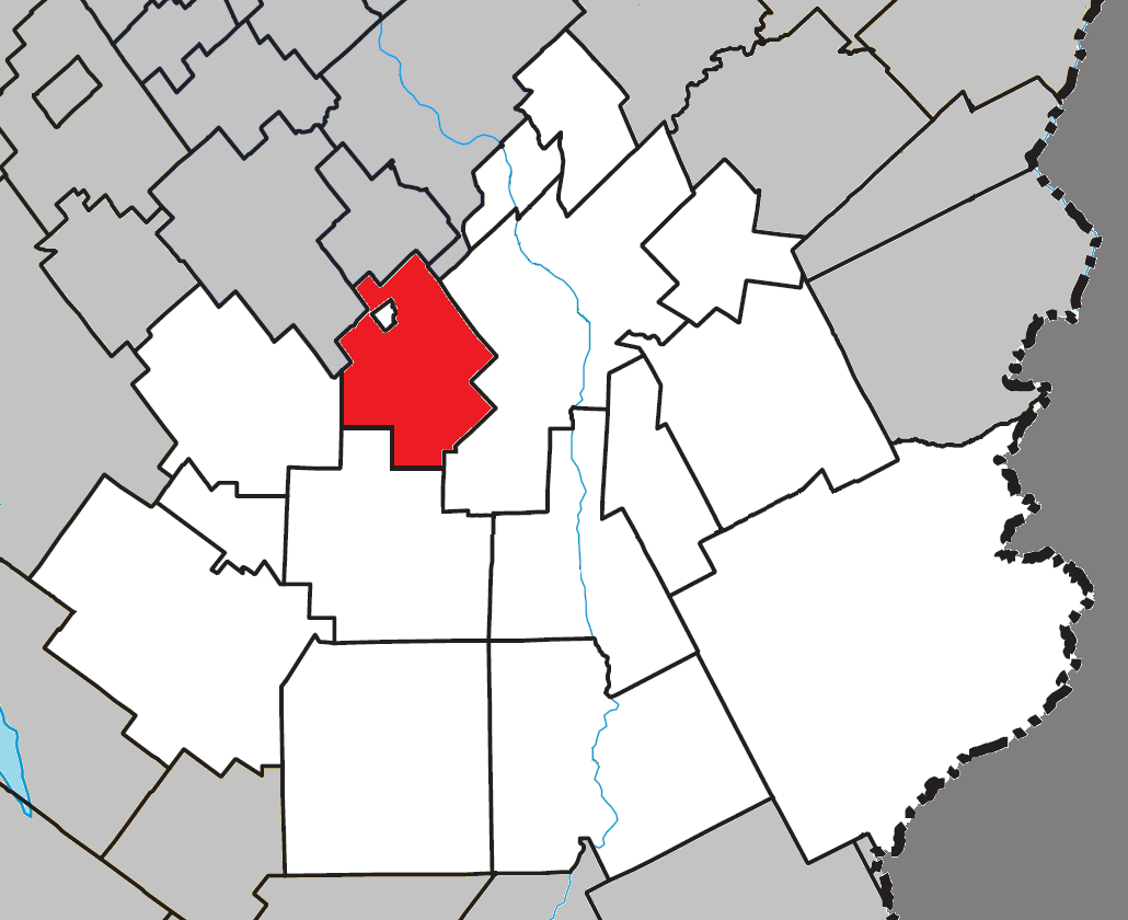 Location of Saint-Benoît-Labre, Quebec within Beauce-Sartigan Regional County Municipality.